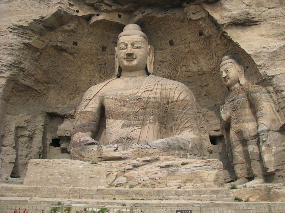 Yungang Caves, Datong, China